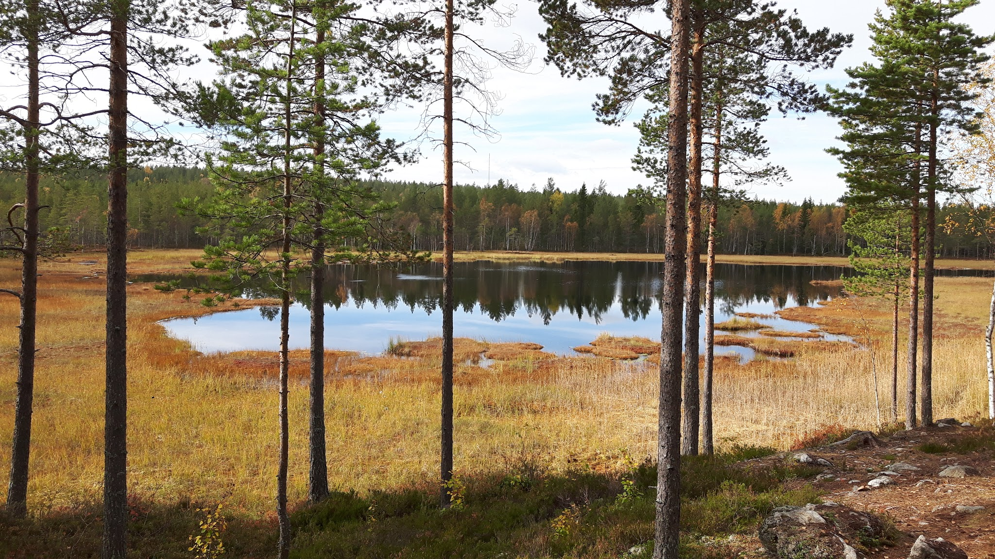 Stor-Gåstjärnen (Tarn) south of Överboda, Umeå muncipality.